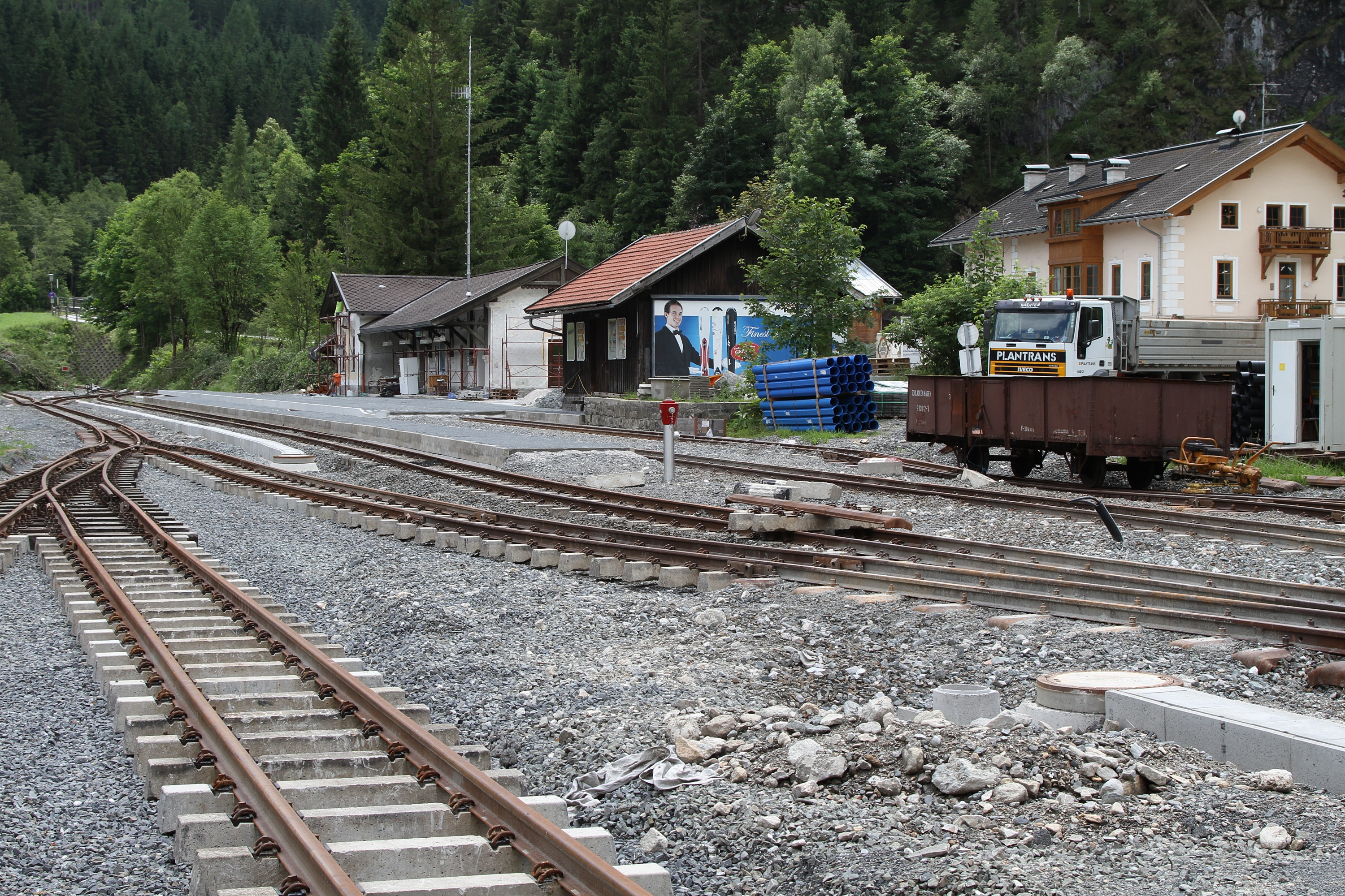 Rebuilding the Krimml terminus of the Pinzgauer Lokalbahn.